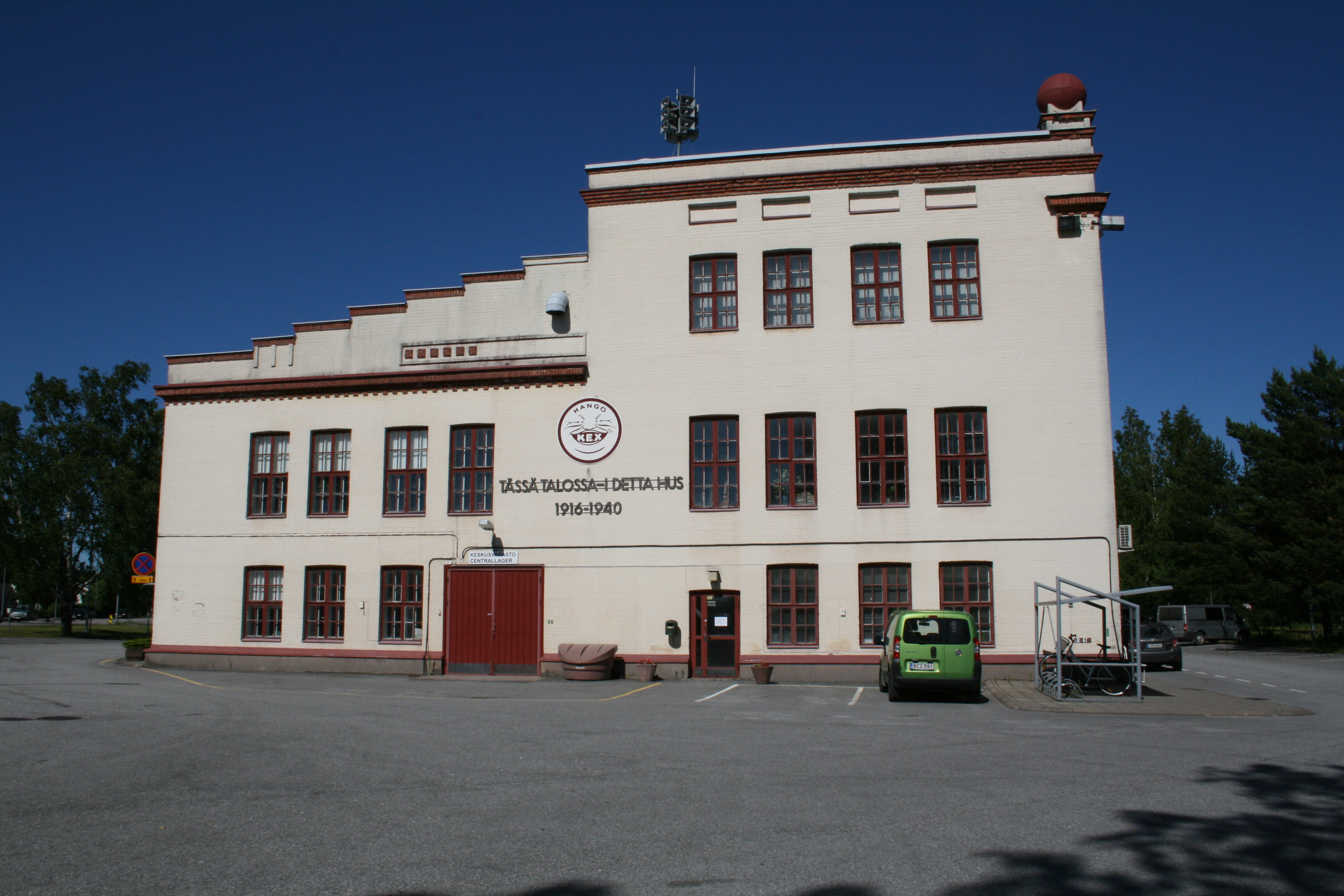 The Bulding of factory Hangon Keksi